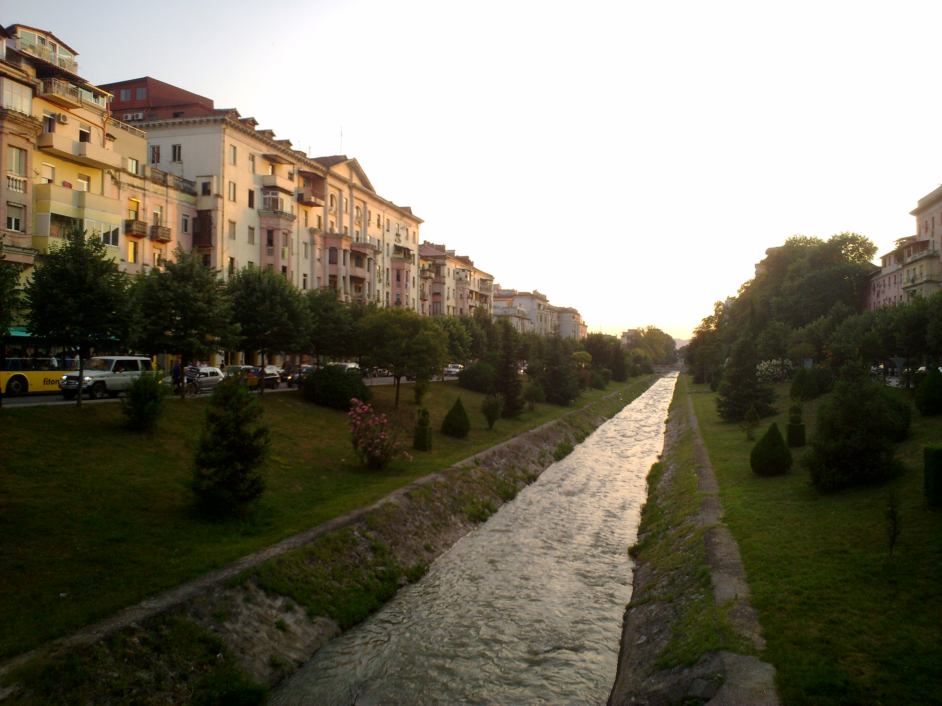 tirana lana river